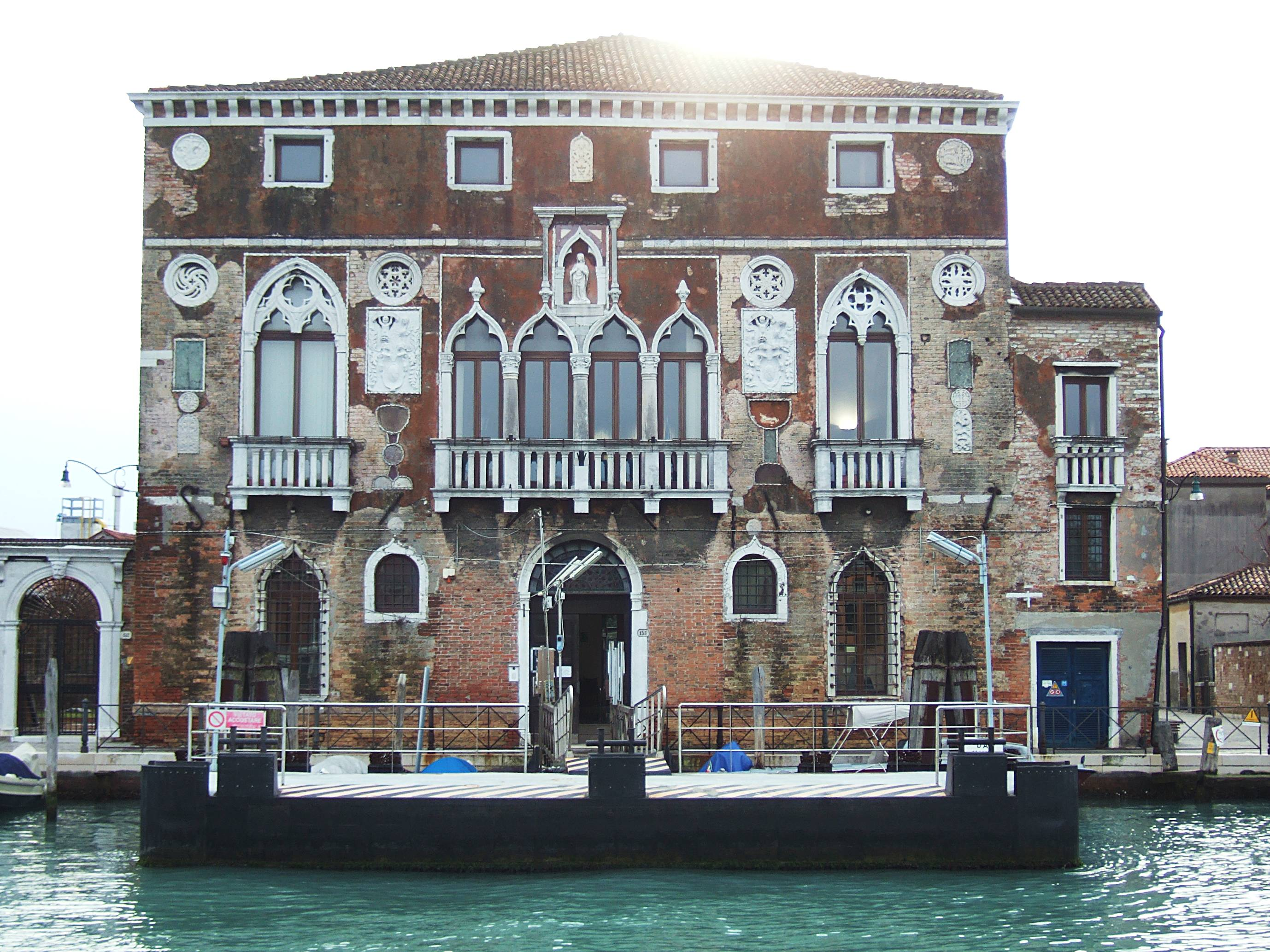 Palazzo da Mula (Murano - Venice)